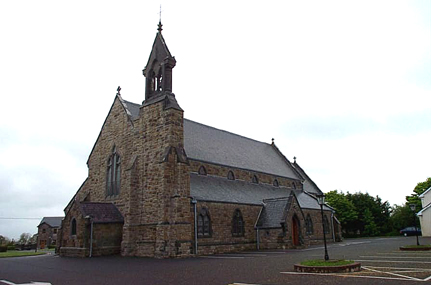 Bohola, Co Mayo, the Roman Catholic Church of The Immaculate Conception and St Joseph Bohola.